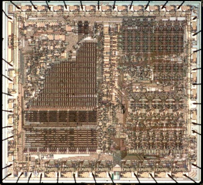 Microprocessor Die (PMOS) of National Semiconductor's SC/MP (ISP-8A/500) (ca. 1976)